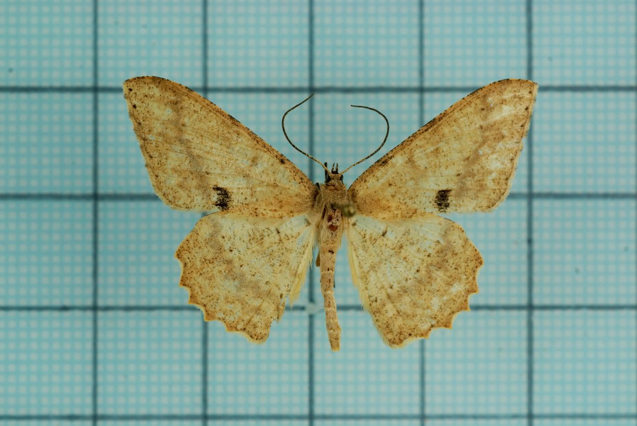 Luxiaria mitorrhaphes Prout, 1927 雙斑鈎尺蛾 臺灣尺蛾科圖鑑 2 P.144 鞍1,P.21,Pl.3-6